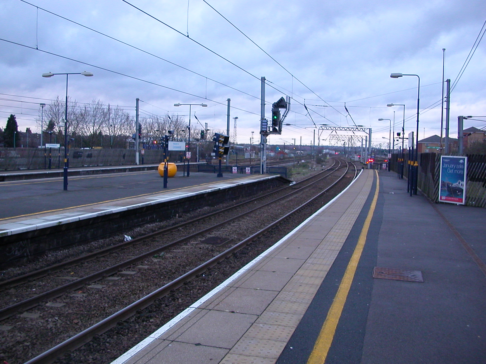 Northbound view from Platform 1 at Cricklewood. Photographed on 13th January 2007.